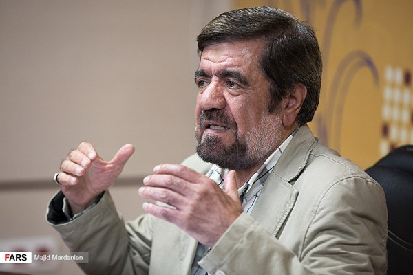 Hossein Herati, representative of Sabzevar at the 1st, 2nd, and 3rd Majlis of Iran